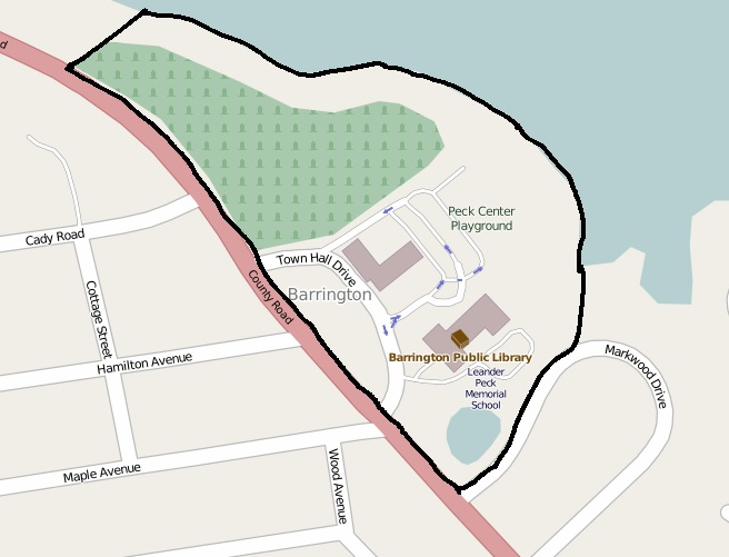 An outline of the Barrington Civic Center Historic District boundaries Other information The map source is credited to OpenStreetMap and is open data, licensed under the Open Data Commons Open Database License.